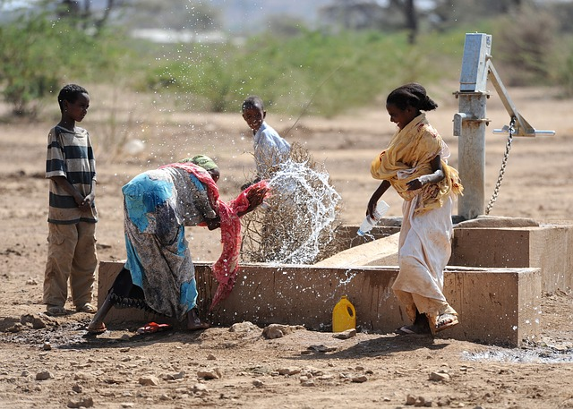 The image shows Ethiopian women and boys in Jedane playing with water